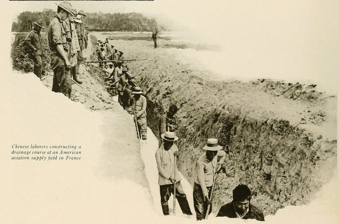 Chinese laborers constructing a drainage at an American aviation supply field in France” - from the book Fighting America's fight.